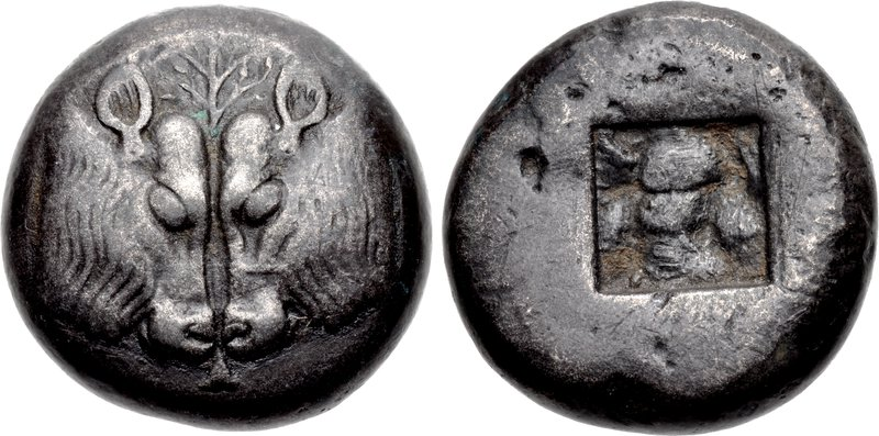 LESBOS, Unattributed Koinon mint. Circa 510-480 BC.